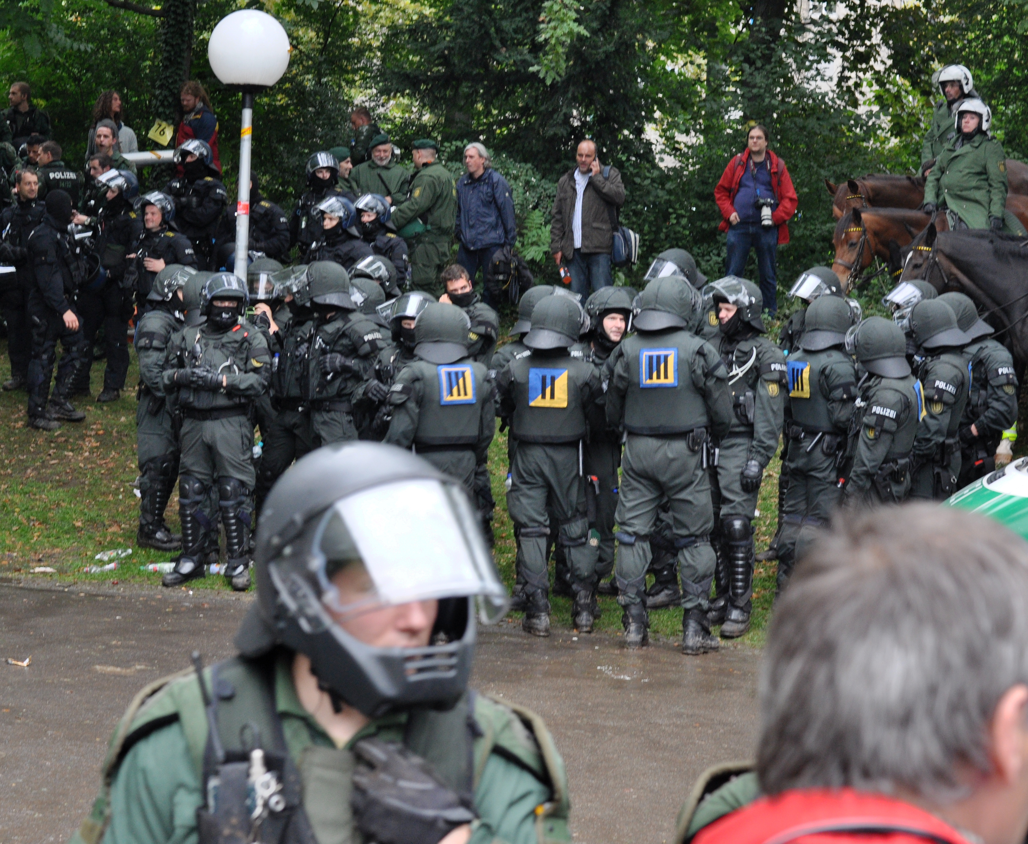 Police forces in Stuttgart's Schlossgarten park during conflicts about Stuttgart 21